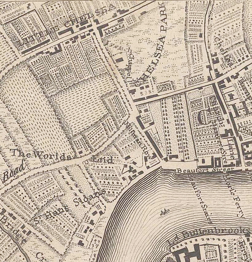 Little Chelsea & parts of Chelsea, 1746